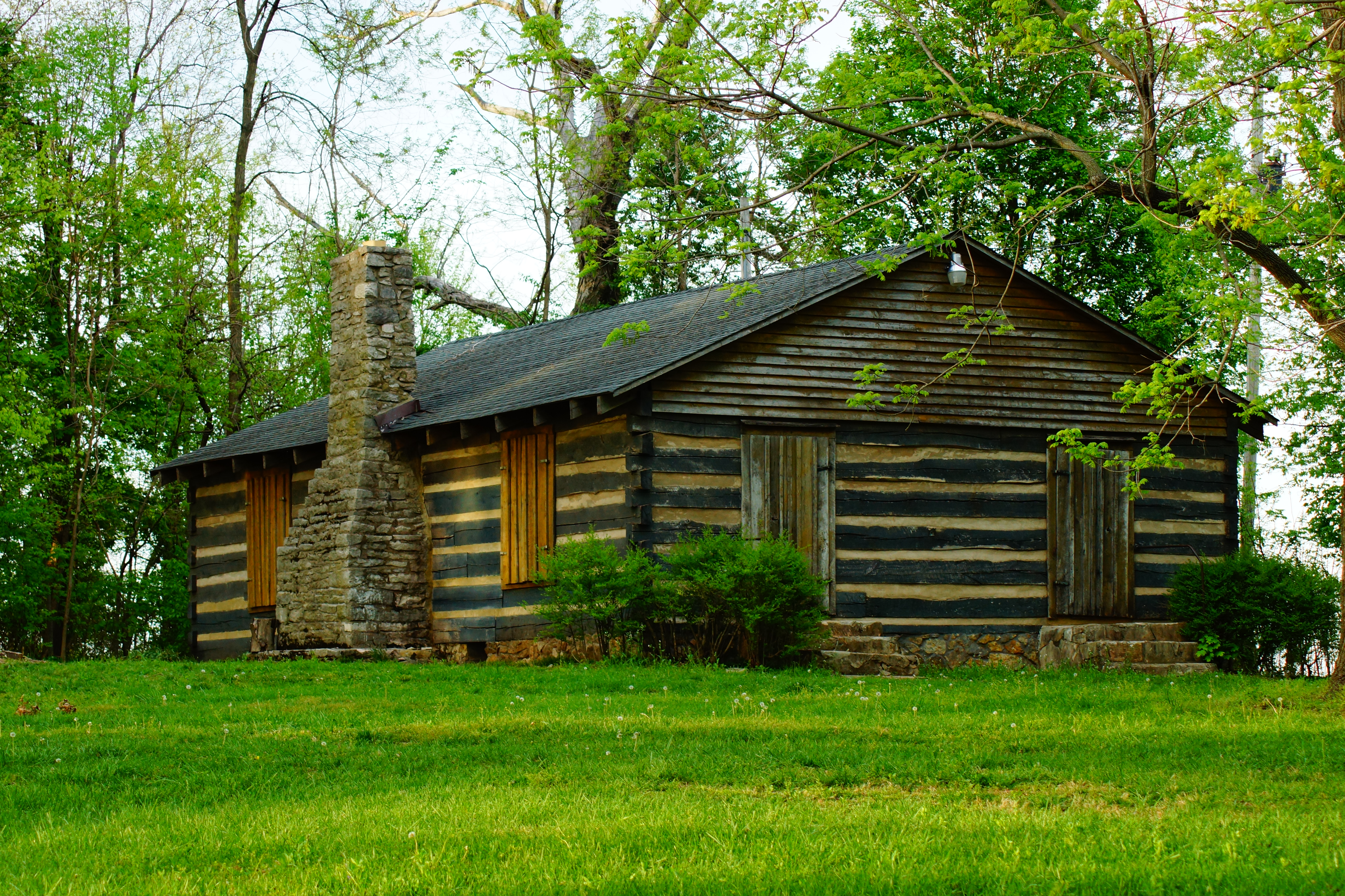 Reconstruction of Red River Meeting house adjacent to original meeting house. Photo taken by Crystal Chapman, May 2014. No copyright claimed on image. Revival of 1800